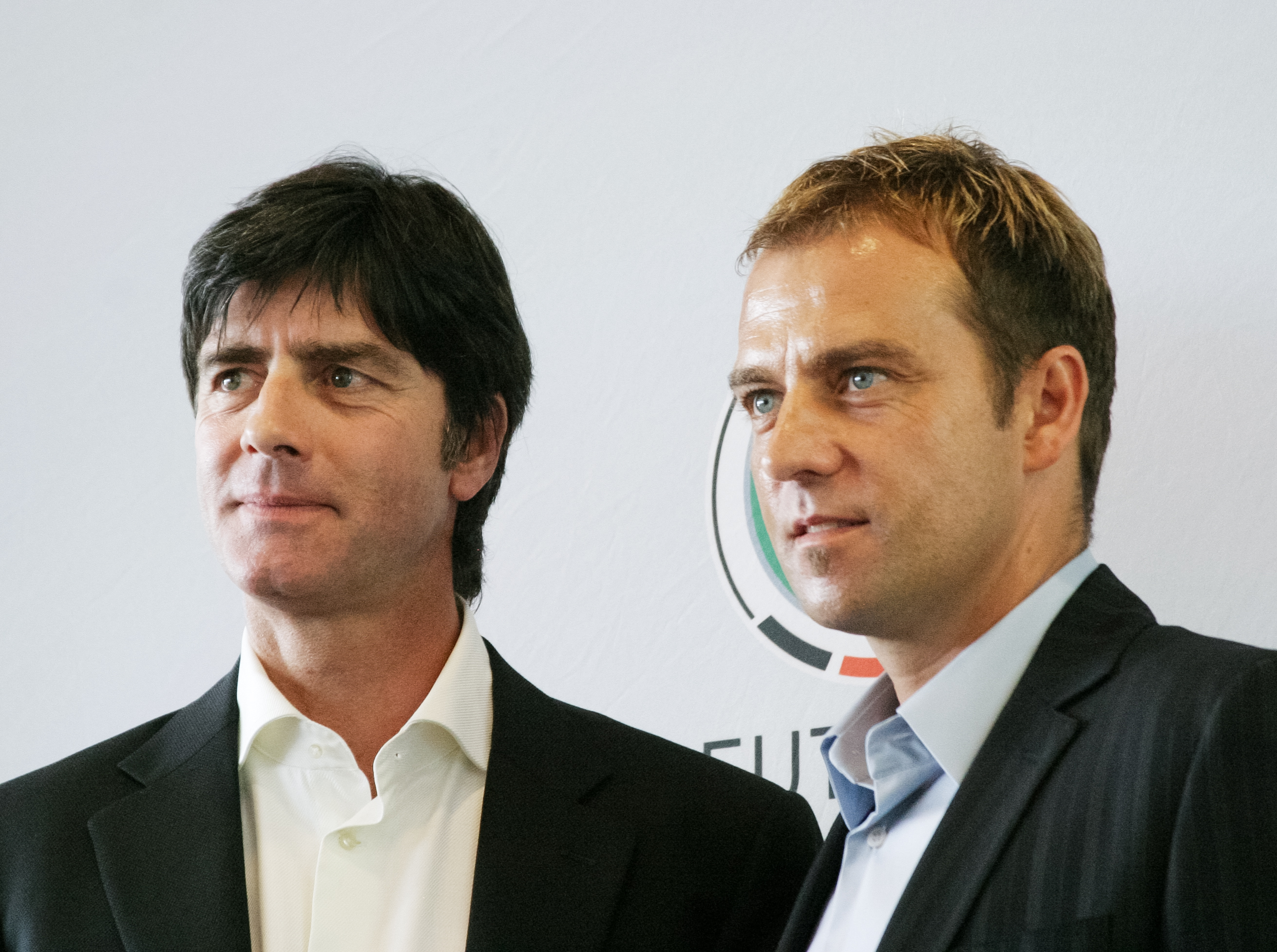 Joachim Löw und Hans-Dieter Flick during press conference in August 2006. During the press conference Flick was announced to be the new assistant coach of the German national football team.